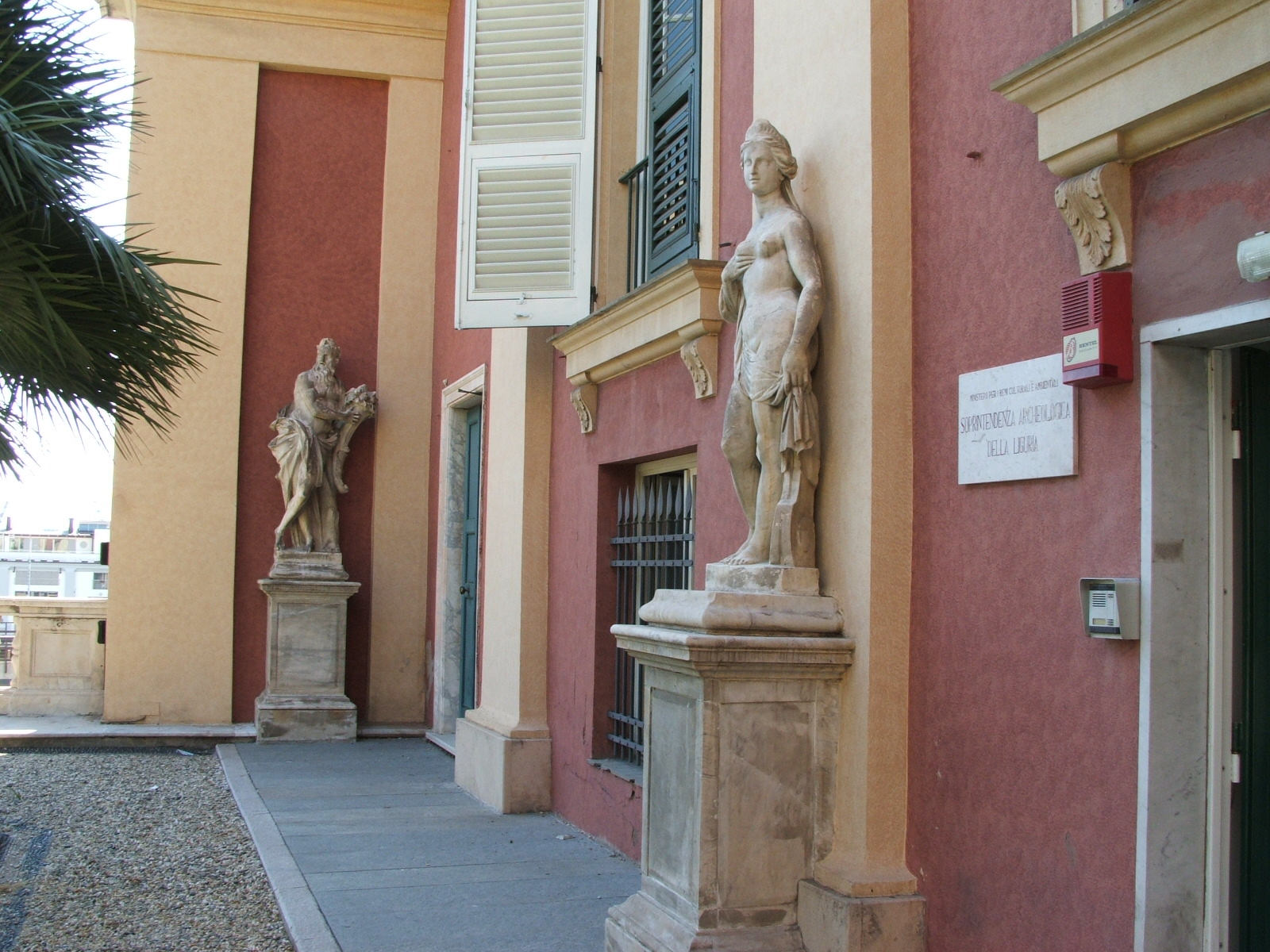 Statues in the garden of the Royal Palace in Genoa (Italy).